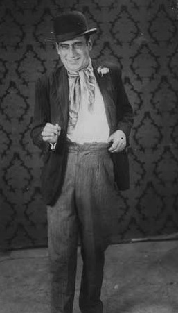 Álvaro Escobar- actor argentino en 1938